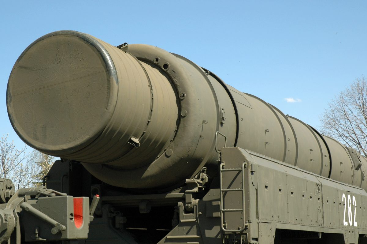 A Soviet RSD-10 Pioneer (SS-20) IRBM, displayed at the Great Patriotic War Museum, Kiyv